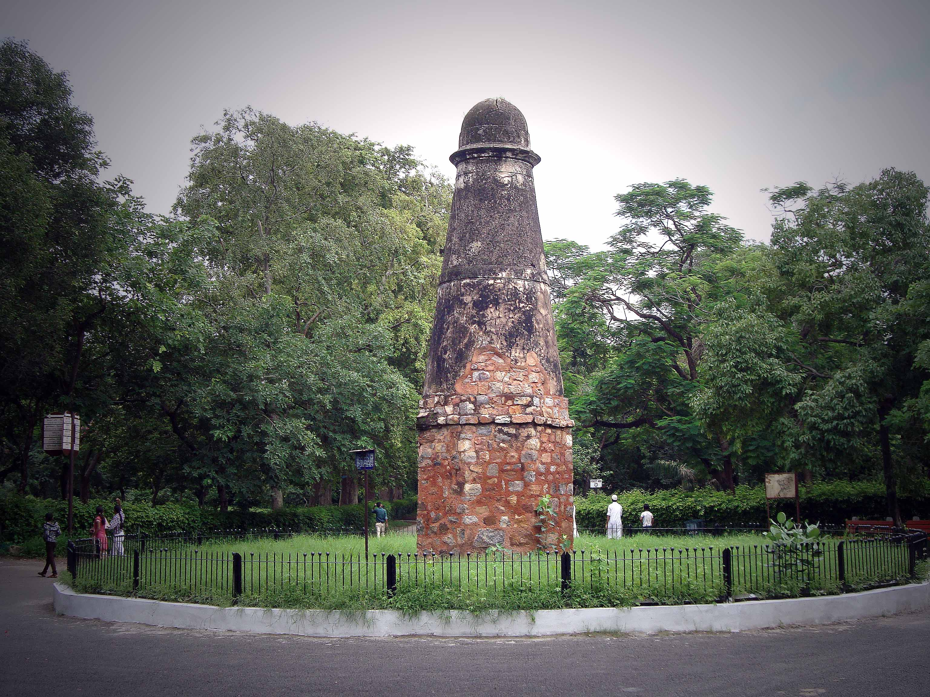 N-DL-6 Kos Minar or Mughal Mile stone